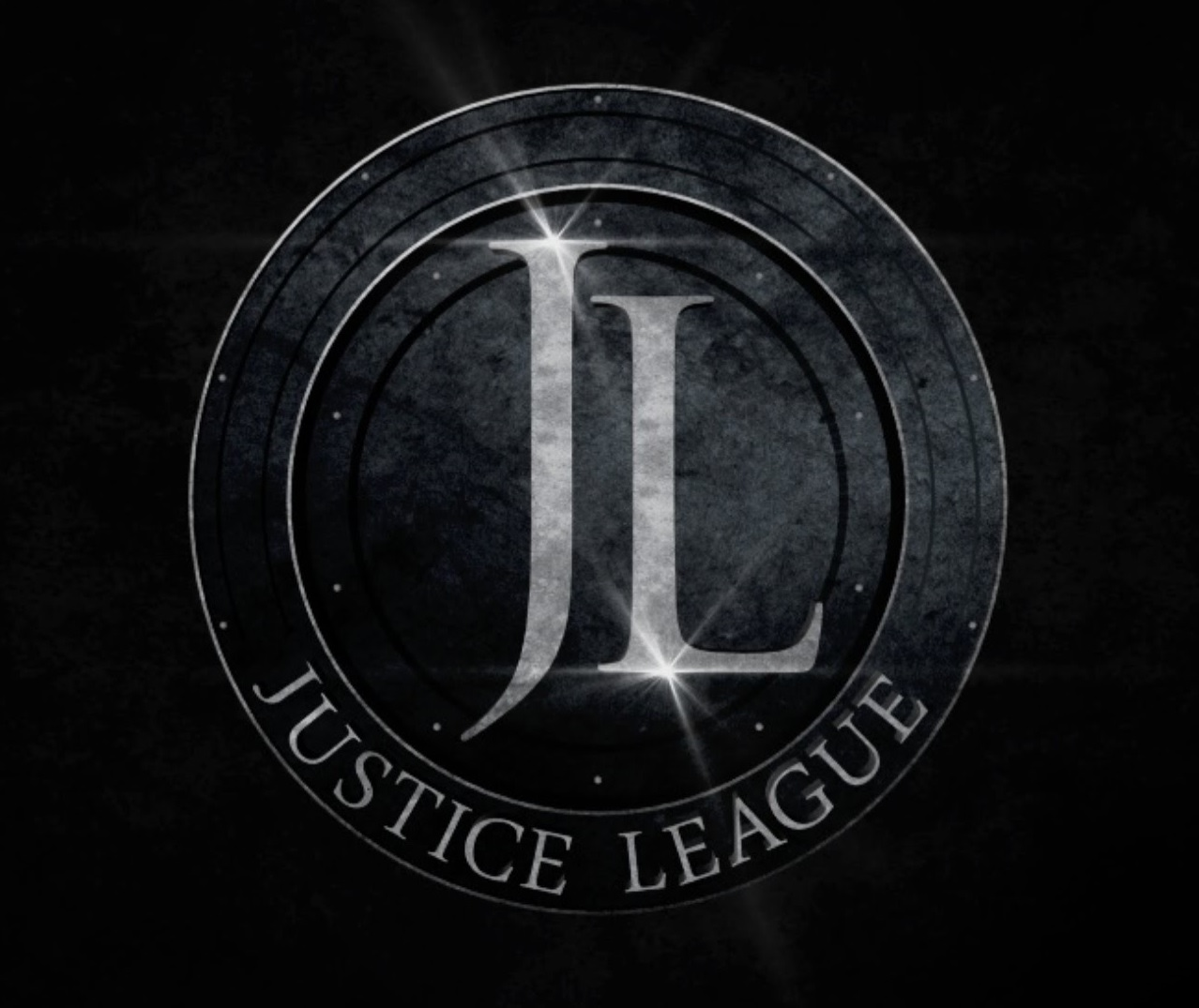 photo for TJLU